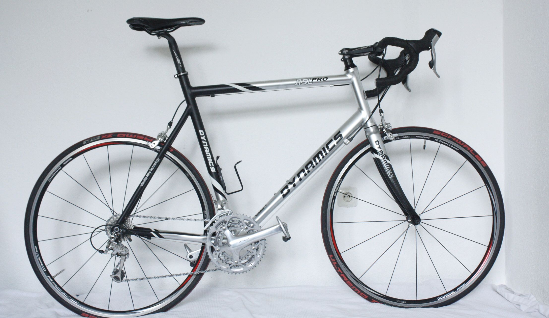 Dynamics Road Bike of German Reseller Stadler